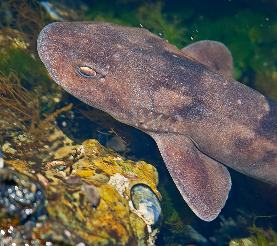 A brown shyshark photographed in a rock pool at Bloubergstrand, Cape Town, South Africa.